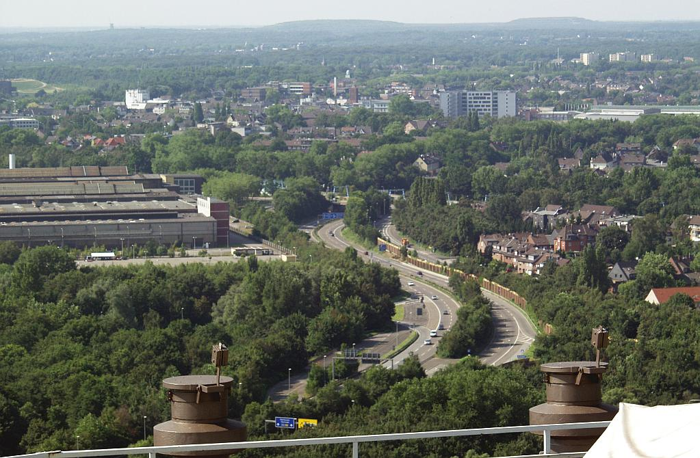 Motorway A 516 at Oberhausen, Germany - a view from the Gasometer Oberhausen